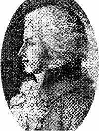 Georg Franz Hoffmann, German and Russian Botanist (1760—1826)